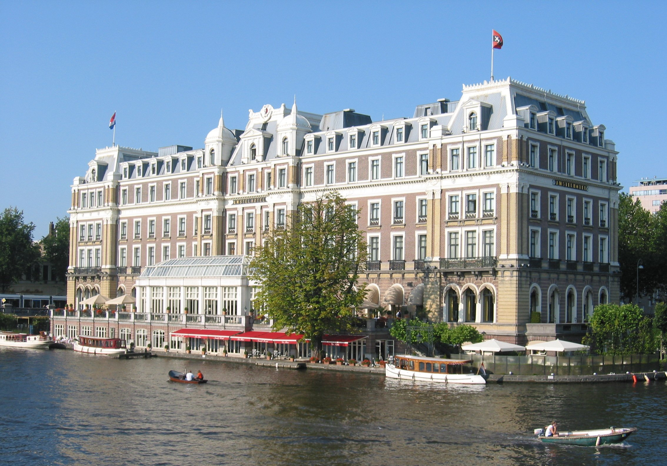 Photo of Amstel Hotel in Amsterdam (official name: Hotel InterContinental Amstel) at the Professor Tulpplein, photo taken from the Torontobrug.